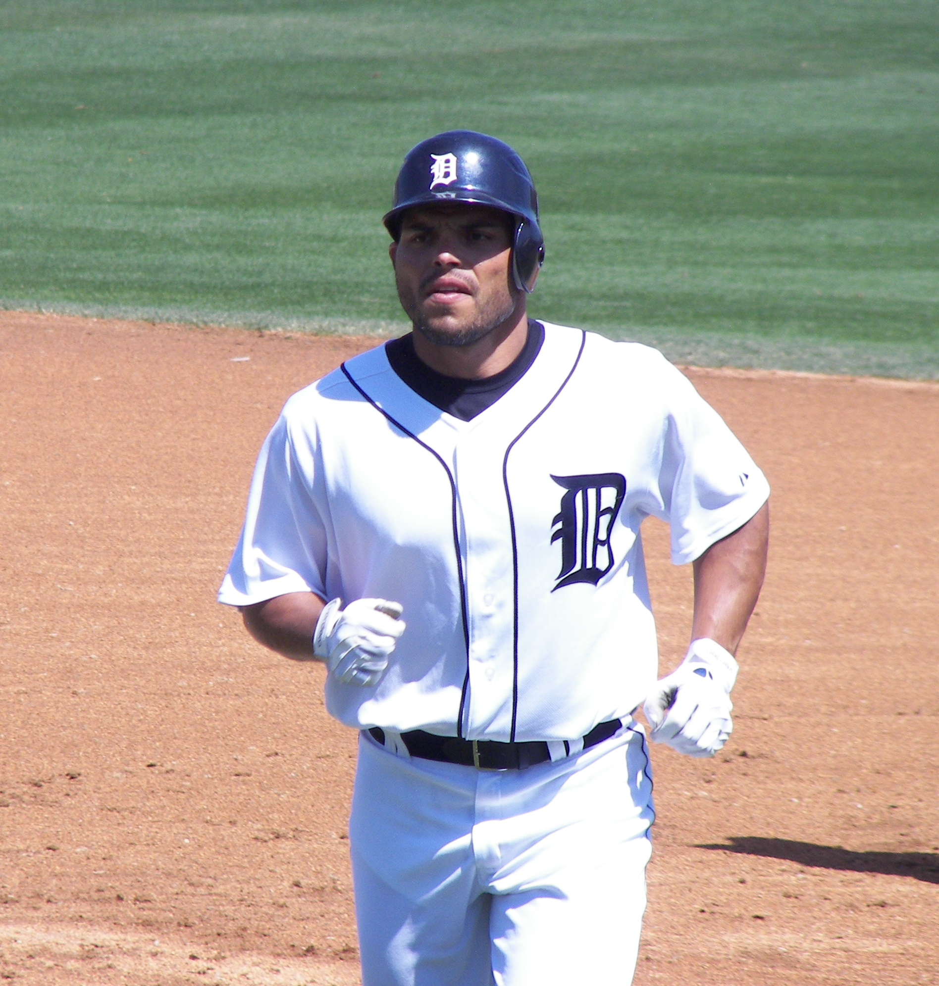 Detroit Tigers catcher Iván Rodríguez during a Tigers/New York Mets spring training game at Joker Marchant Stadium in Lakeland, Florida.